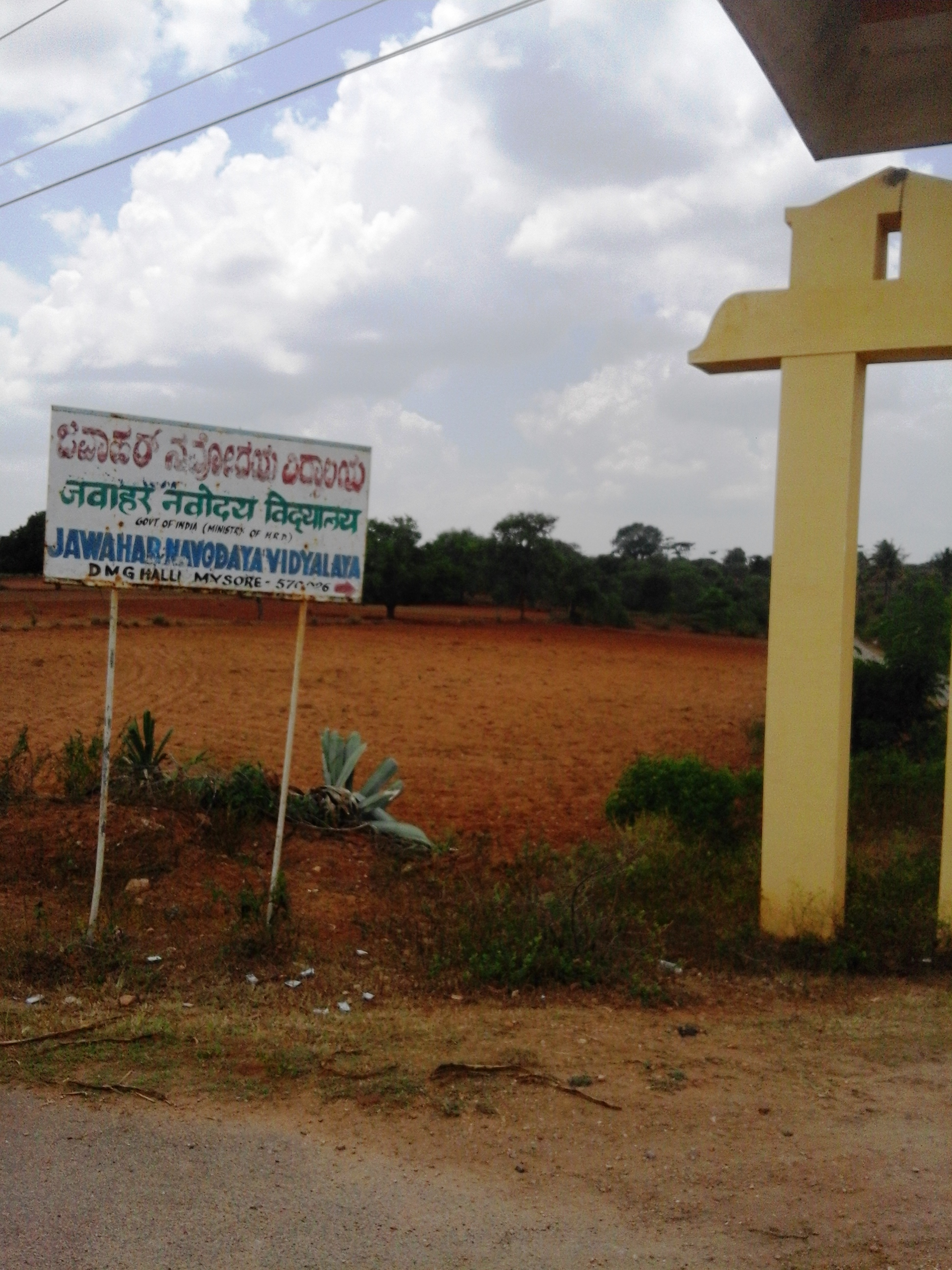 Mavanahalli village, Bhogadi Road, Mysore district, Karnataka state India.